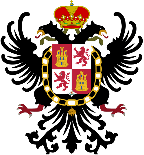 Coat of arms of Tunja, Colombia. It is similar to the coat of arms of Toledo, Spain, with the difference that it doesnt have the Supporters on the sides.